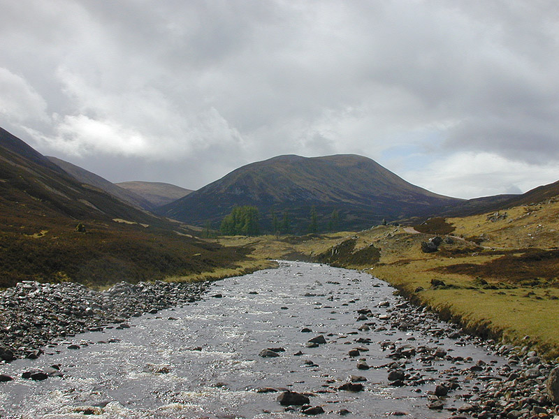 The Ey Burn Taken from the bridge over the burn. Beinn Iutharn Mhor is the hill in the distance.